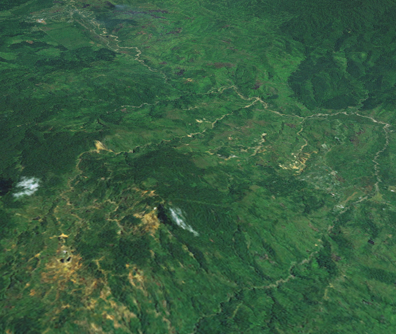 A mine in Papua New Guinea as imaged by NASA. World Wind image of Wau